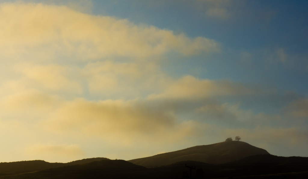 Two trees. Ventura County, Southern California.